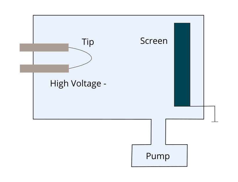 Set up of a field emission experiment